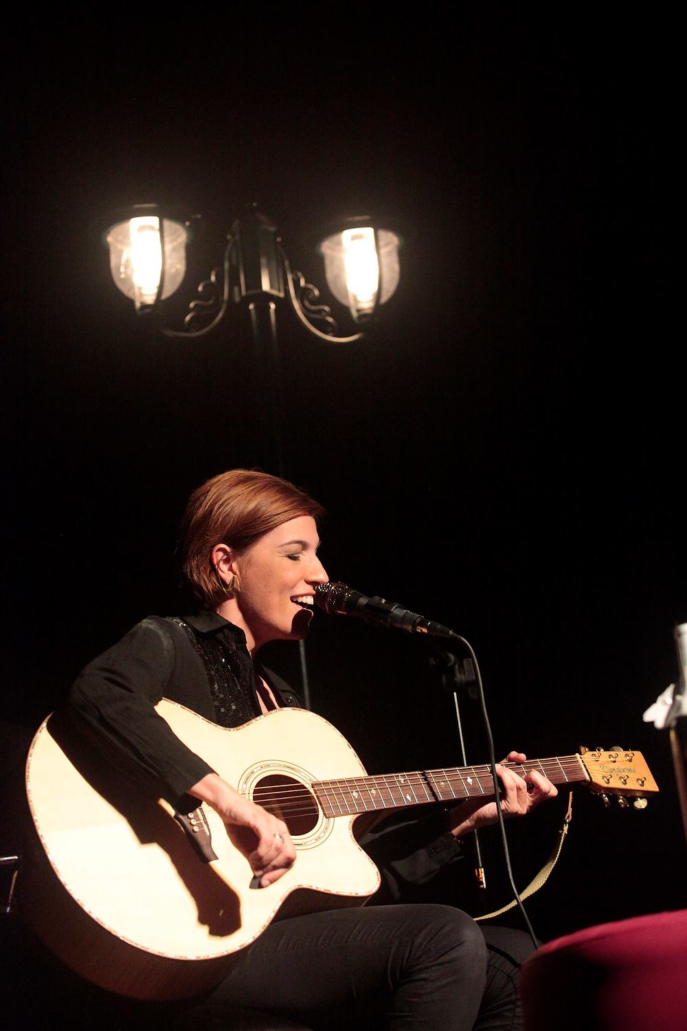 show alive